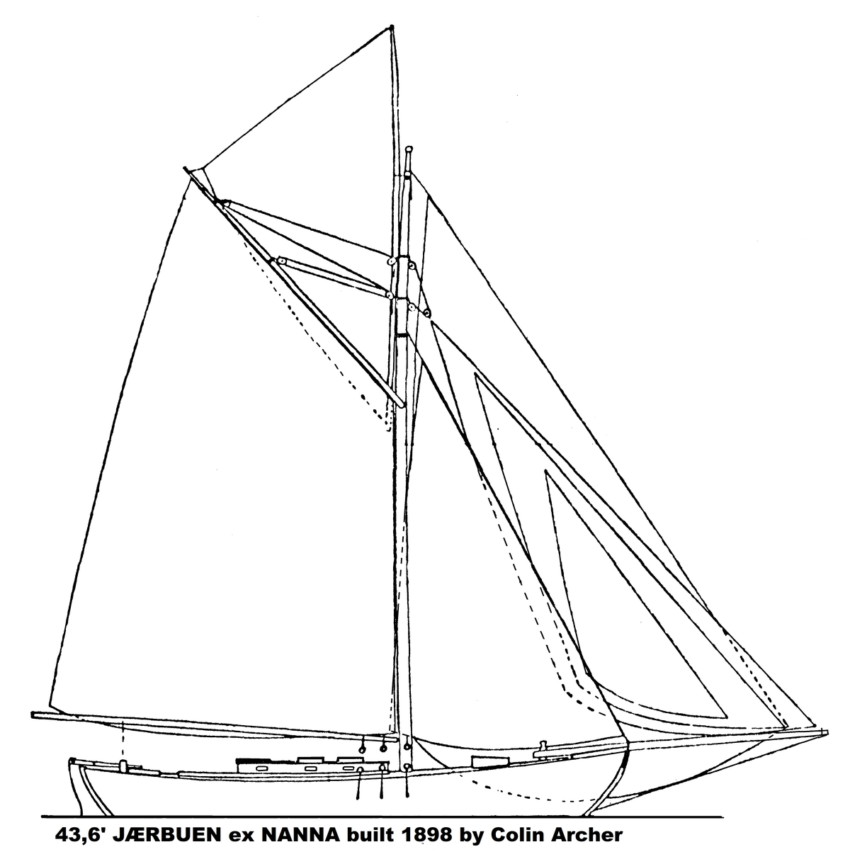 Colin Archer yacht JÆRBUEN II ex NANNA built 1898 by Archer in Larvik, Norway. Length over deck 43,6 feet, beam 13,5 feet (13,30m x4,10m). Sail area 140 sqm. Displacement 20 tons, Ballast keel 6 tons.